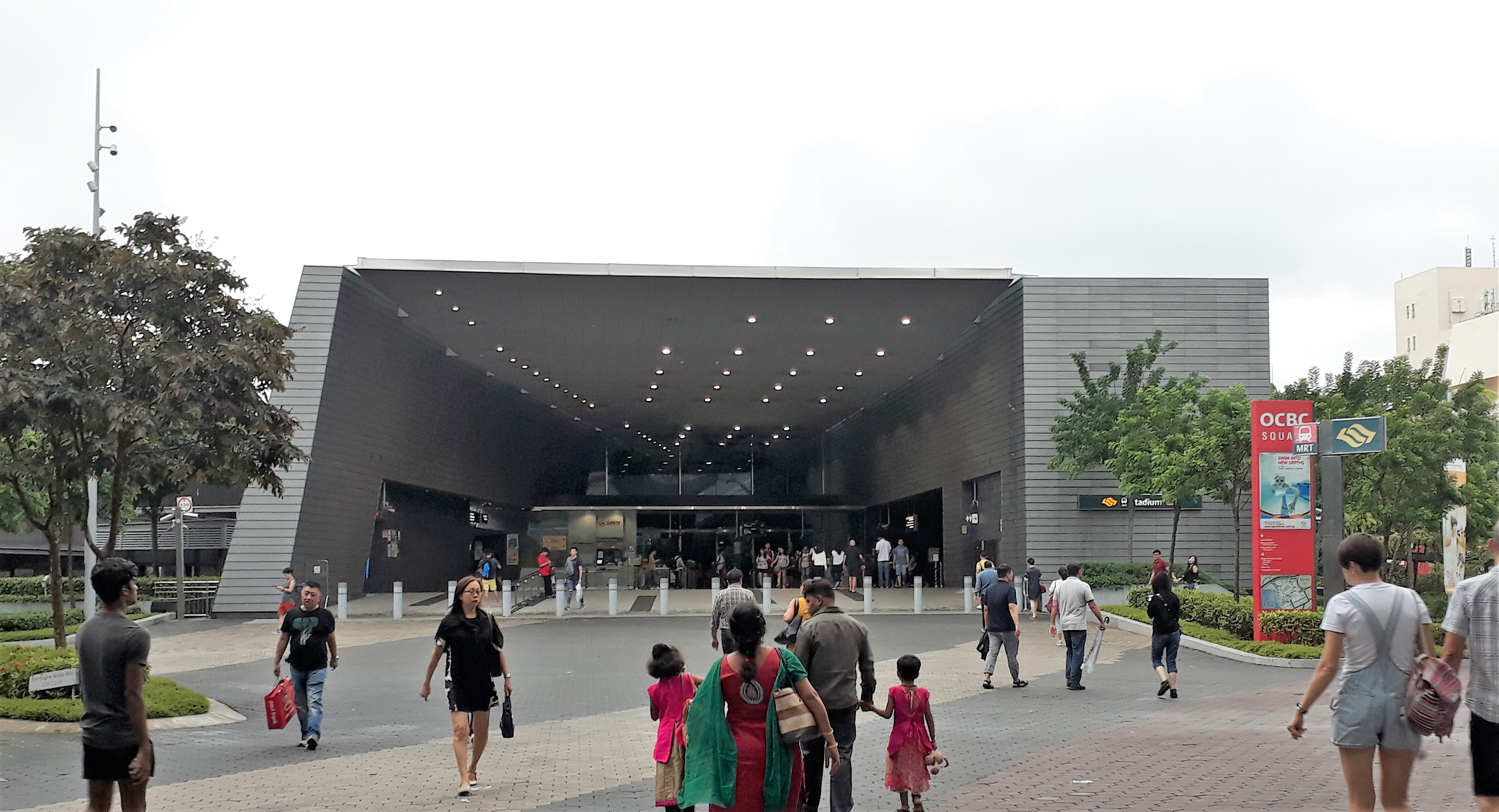 Exit A of Stadium station